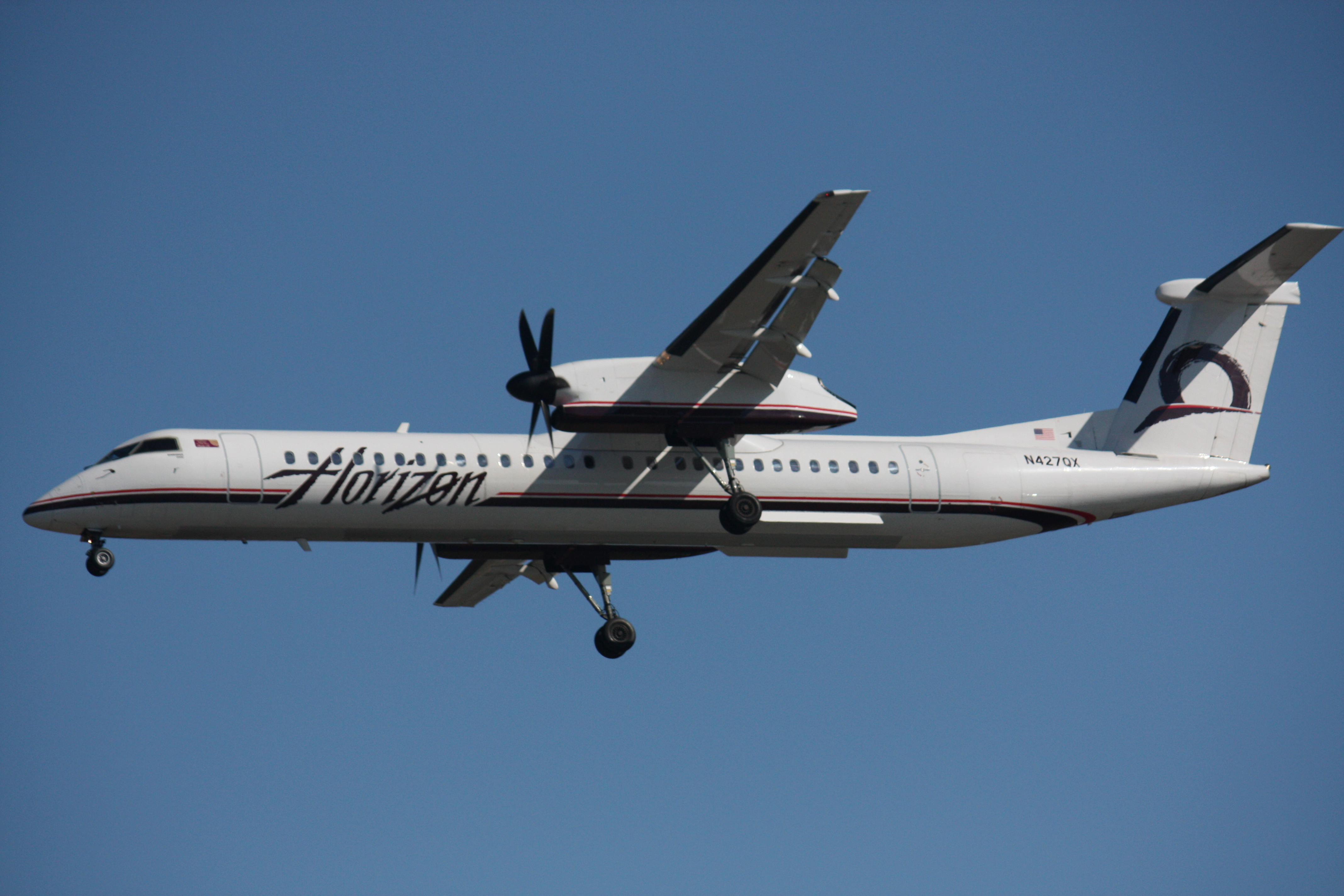 A Horizon Air Bombardier Dash 8-Q402 landing at Vancouver International Airport